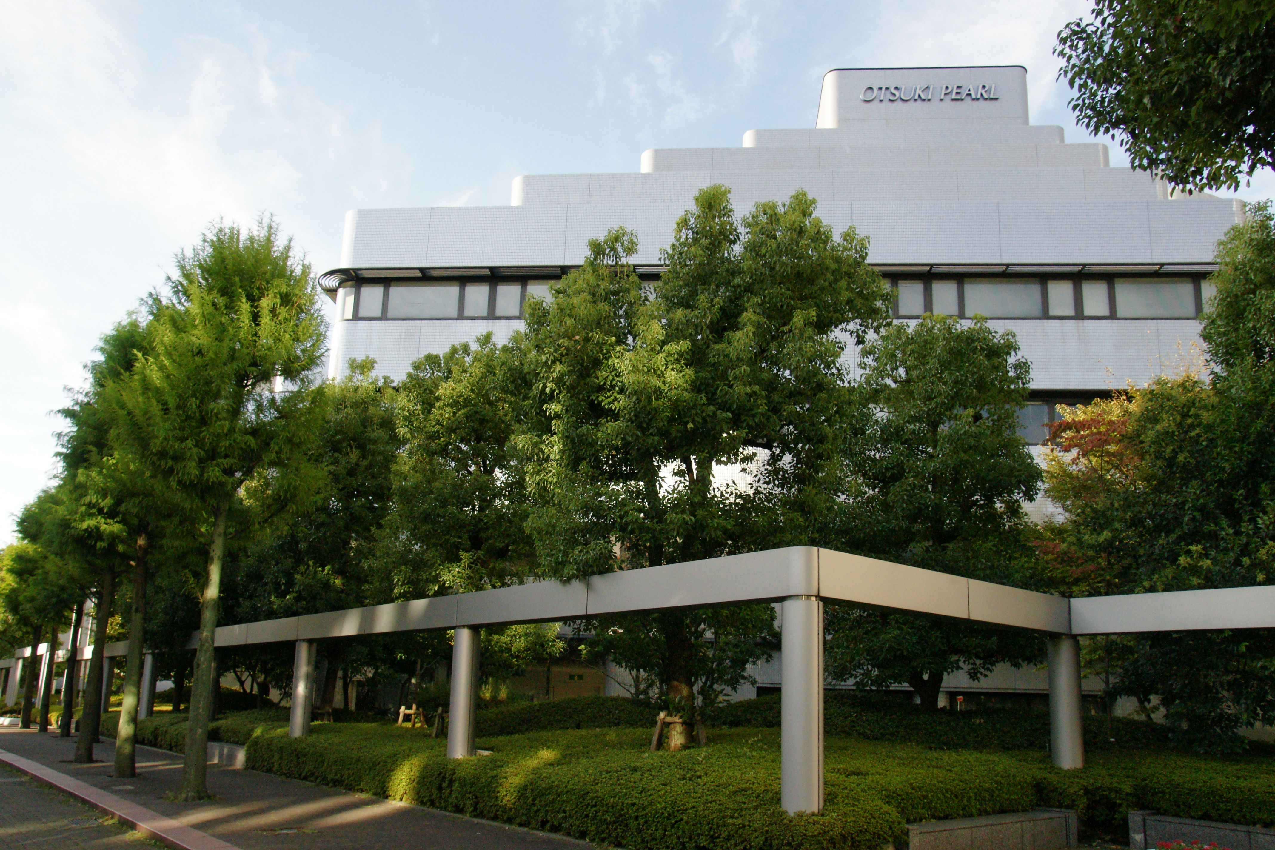 Otsuki Pearl headquarters building in Kobe, Hyogo prefecture, Japan.